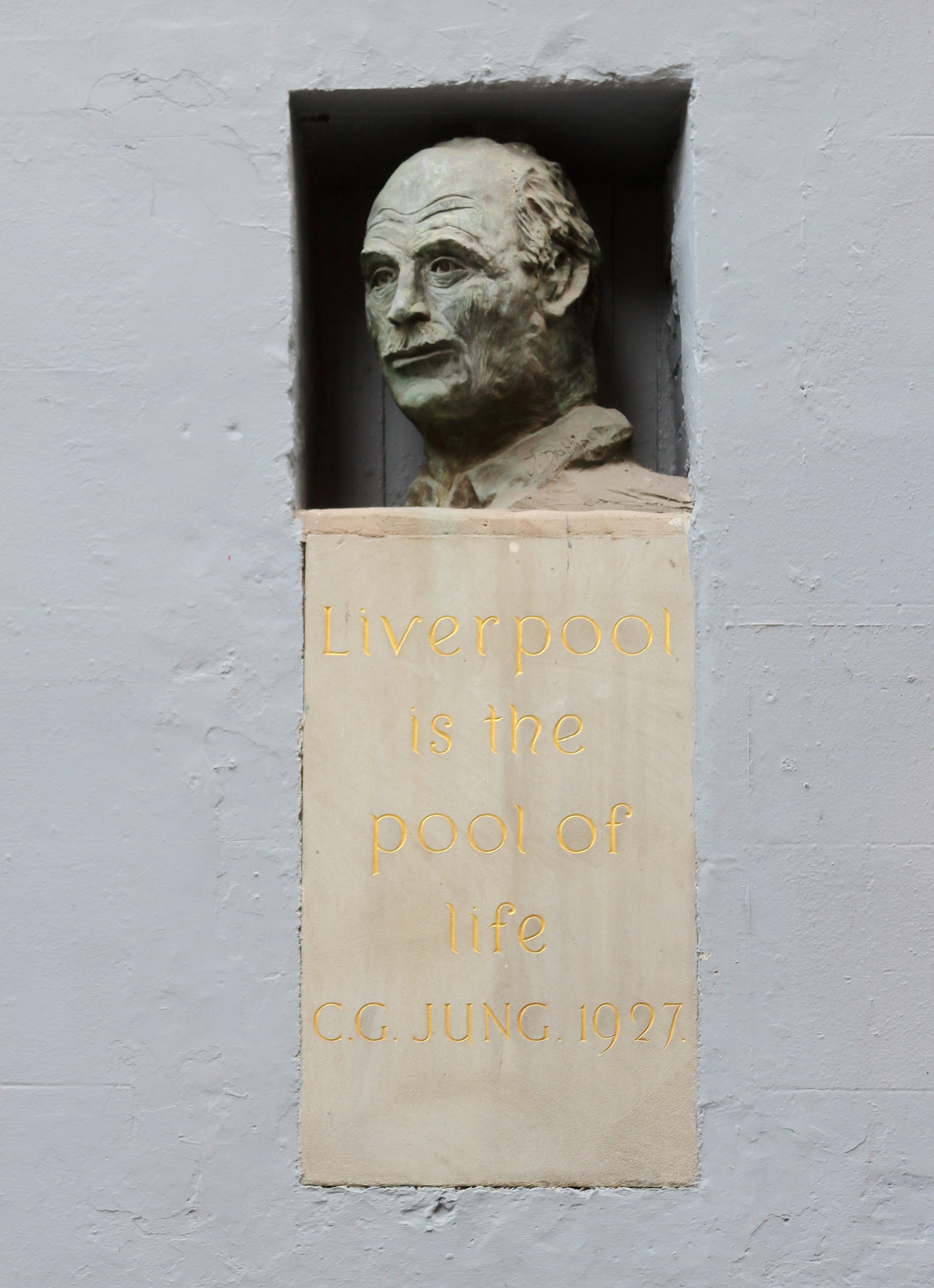 Head of Carl Jung on the wall of Flanagan's Apple pub, Mathew Street, Liverpool.